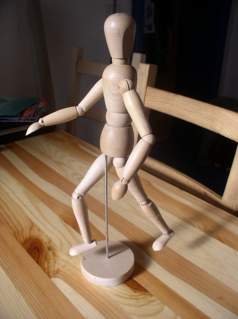 wooden manequin